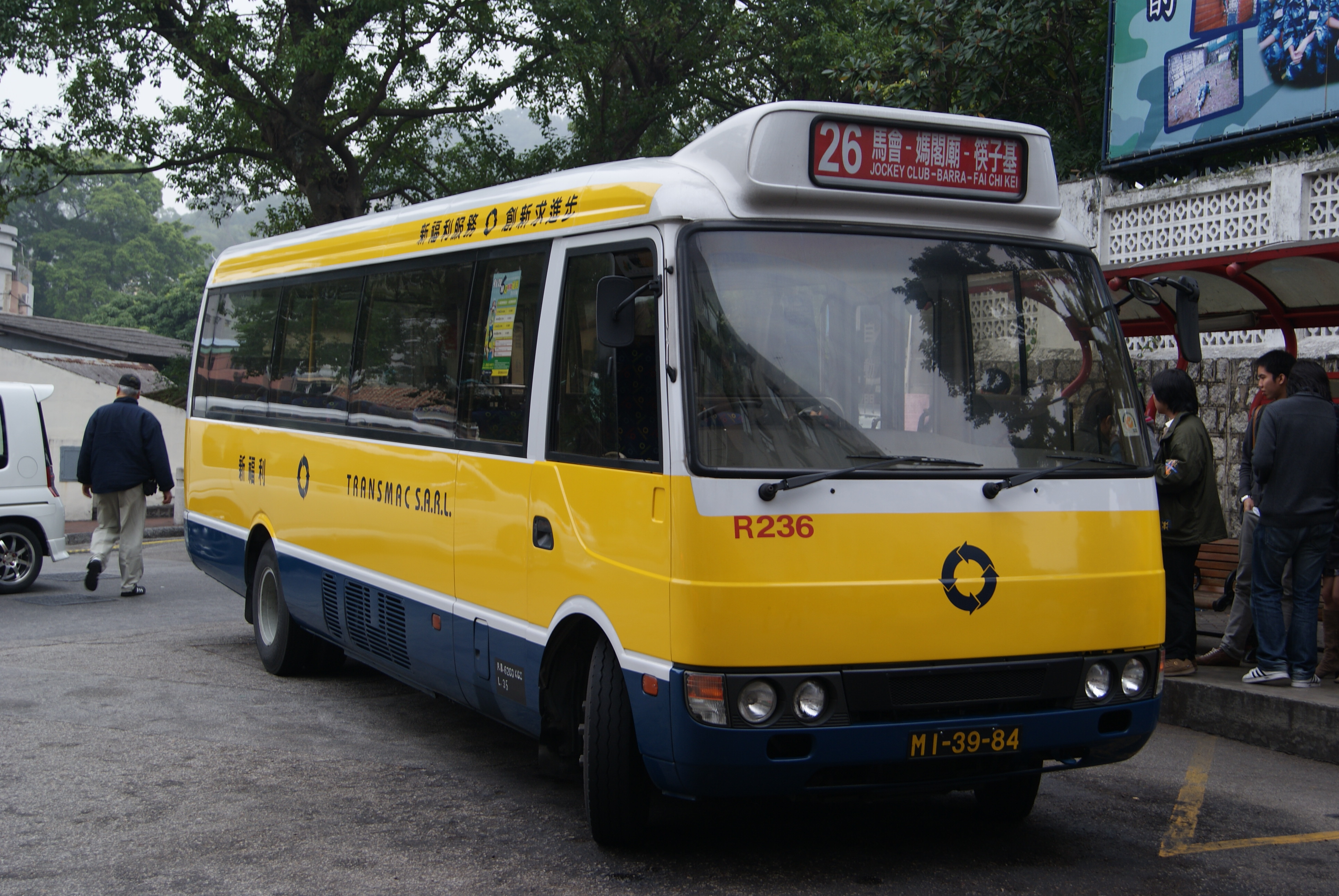 Transmac R236 at 26